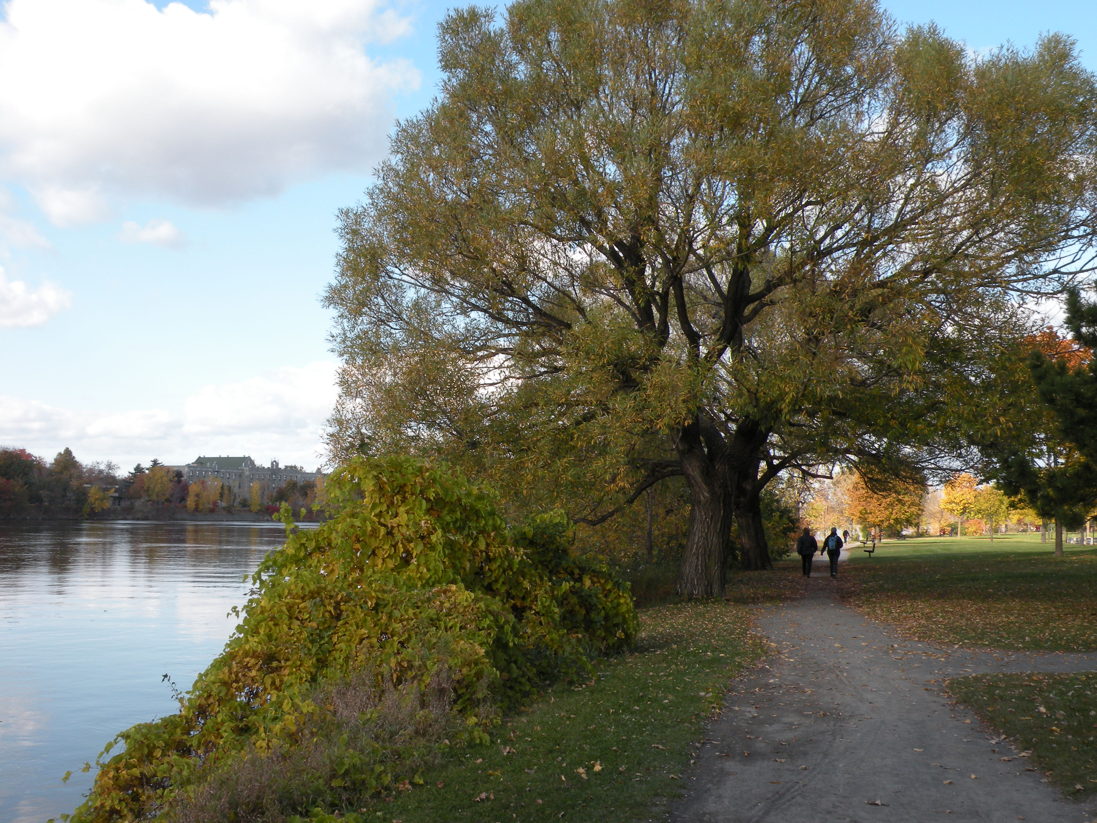 The rivière des Prairies in Canada, as seen from Stanley park in Montréal.